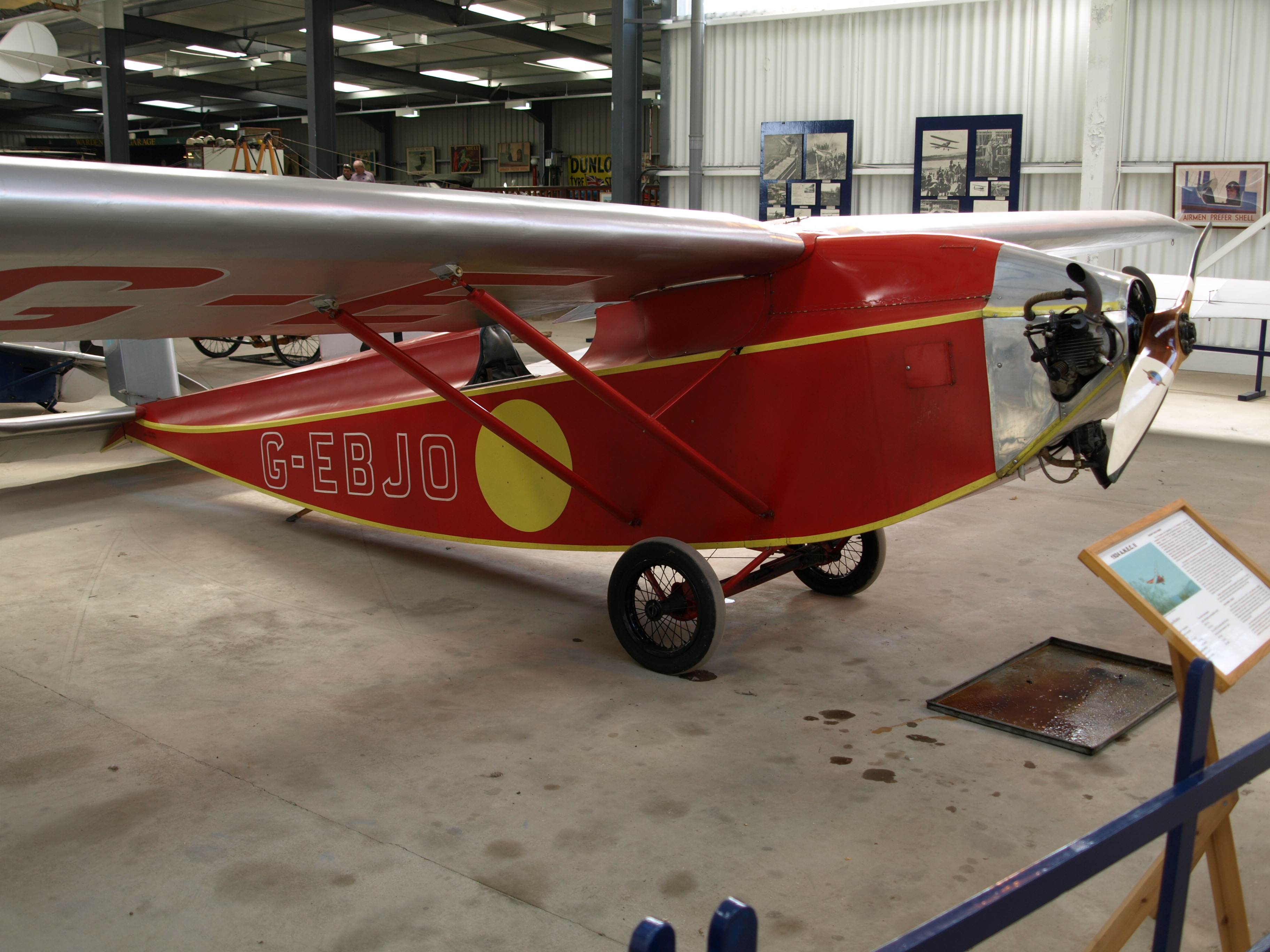 ANEC II historic light aircraft